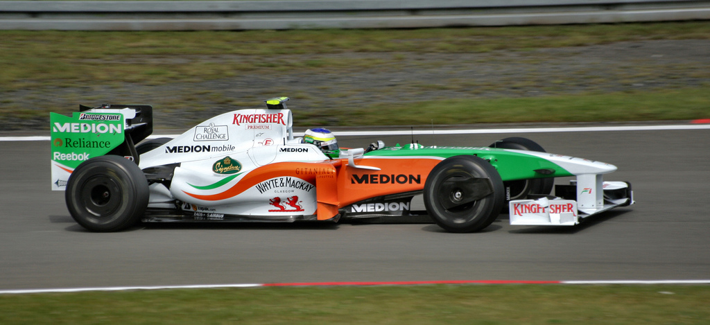 Giancarlo Fisichella driving for Force India at the 2009 German Grand Prix.